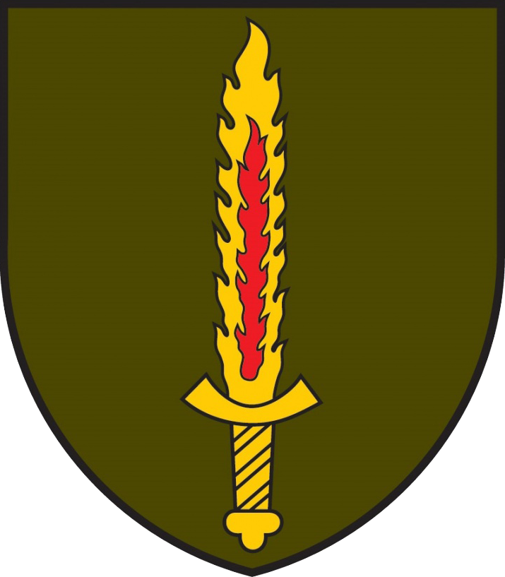 Emblem of the Lithuanian Special Operations Force